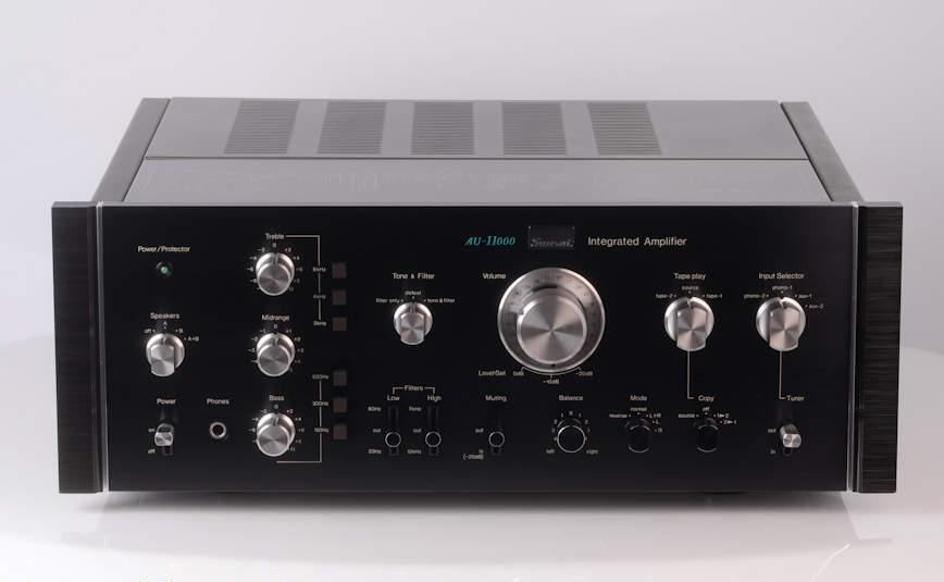 Sansui AU-11000 (Front)